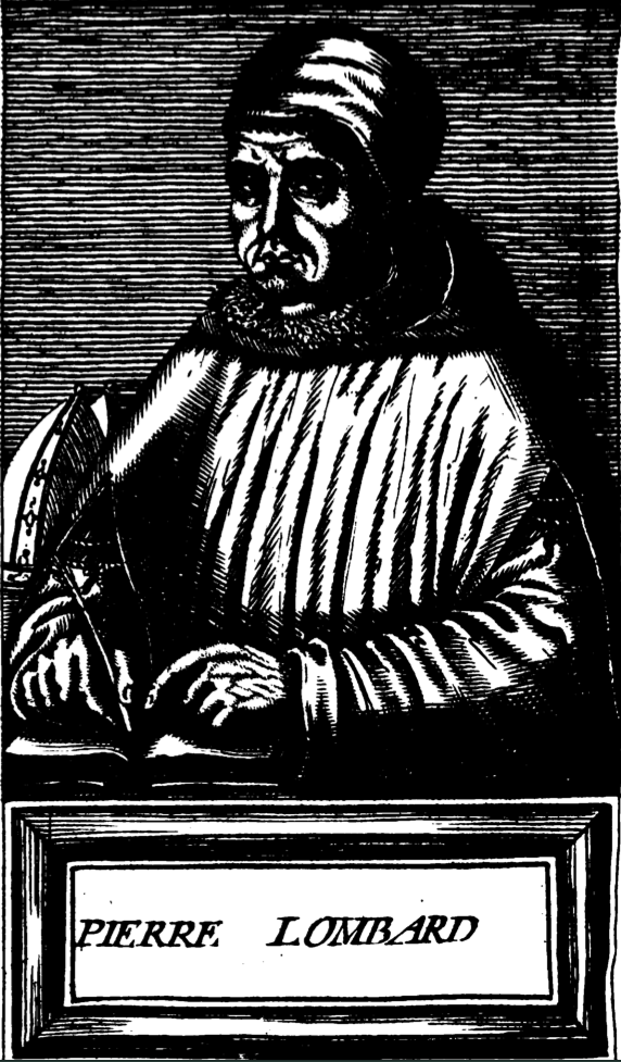 Woodcut of Peter Lombard from Andre Thevet's Histoire des plus ilustres et scavans hommes de leurs siecles